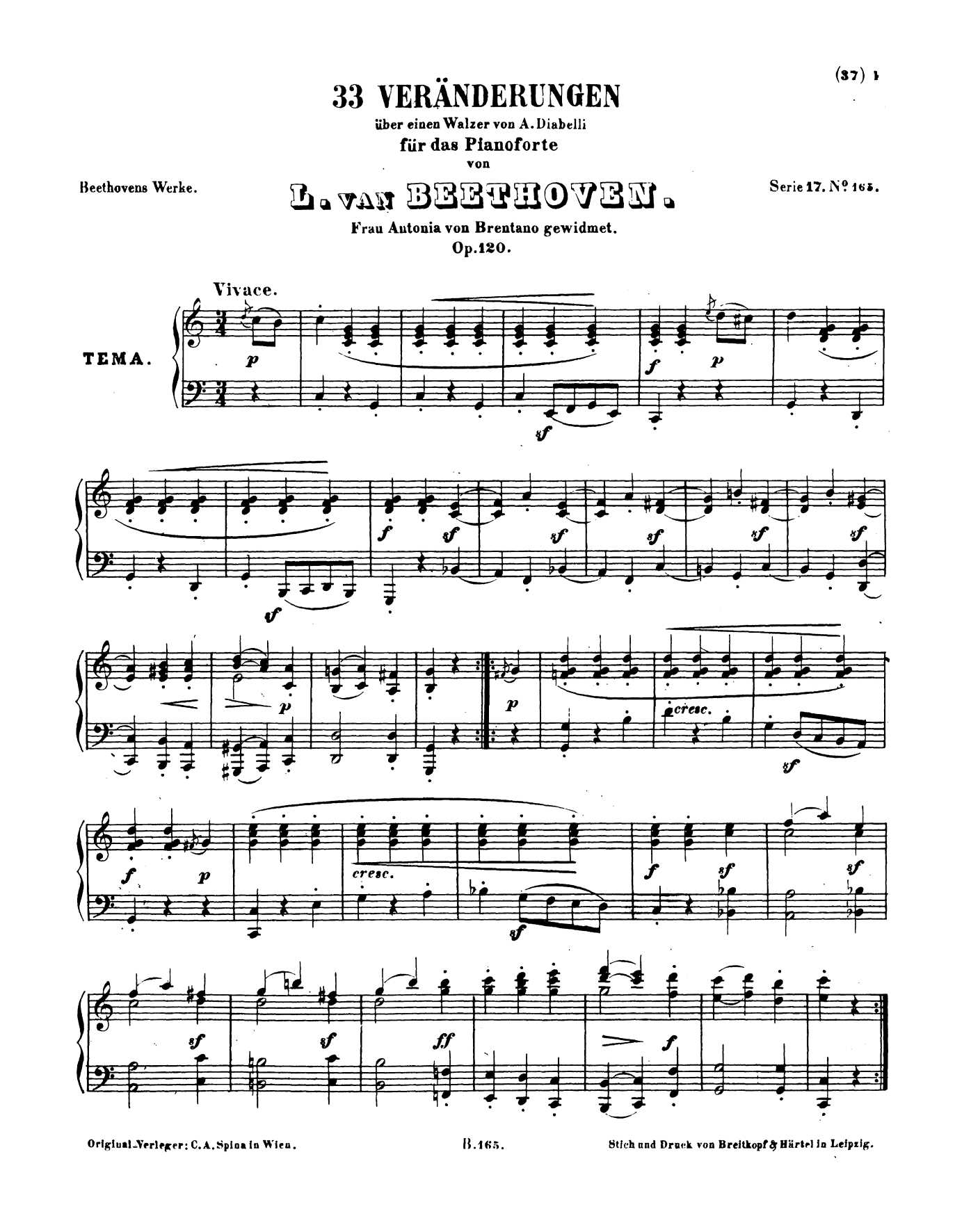 Theme of Beethoven's Diabelli Variations, the waltz by Anton Diabelli.